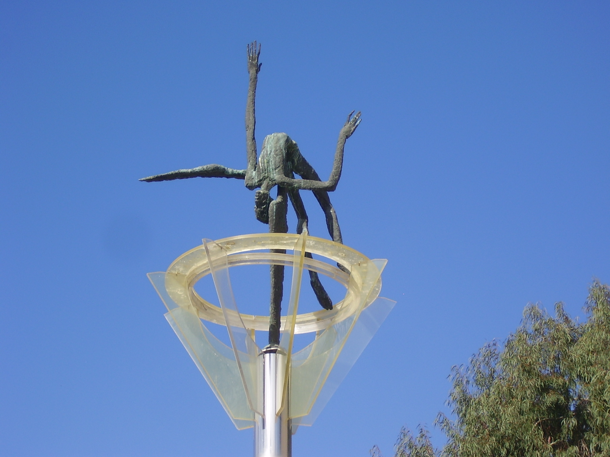 "Icarus" by Motti Mizrachi, Tel Aviv